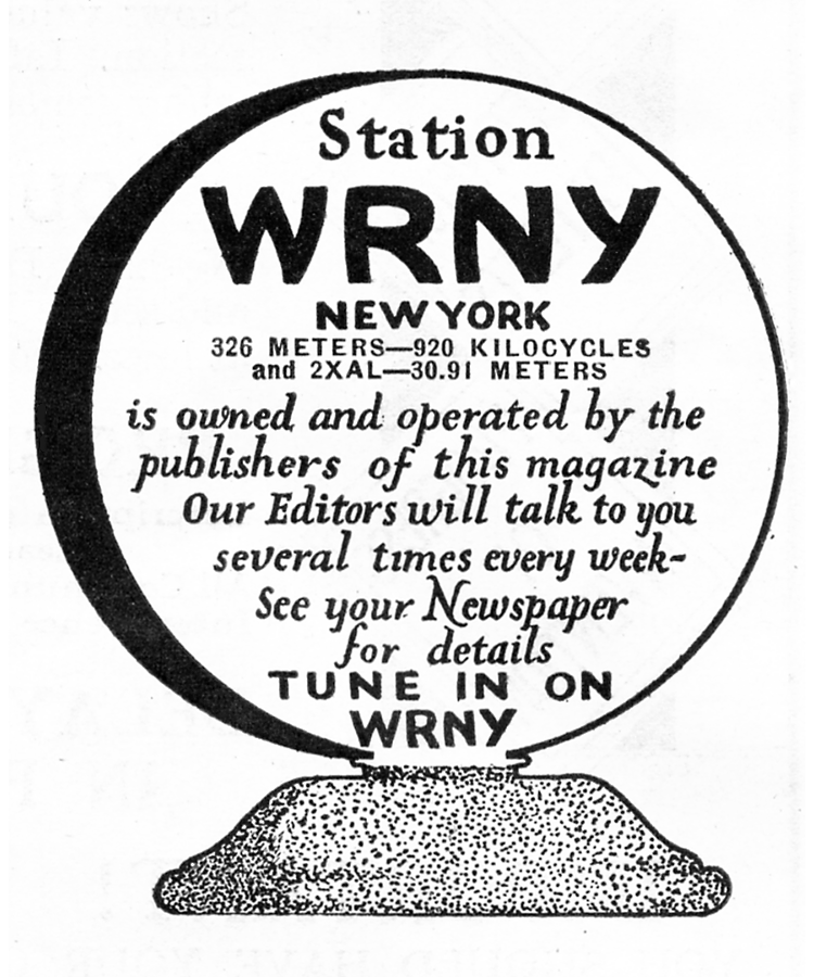 WRNY Radio Advertisement, 1928. This was Experimenter Publishing's New York City station. WRNY used several frequencies from 1925 to 1934. In the 1920s, a listing of broadcast stations in a magazine or newspaper would use wavelength instead of frequency to specify a station's location on the radio dial. The advertising logo for WRNY shows both, 326 meters and 920 kilocycles. The public was slow to adopt the new "kilocycle" terminology because they could relate to wavelengths. A radio station's antenna was a one-half wavelength long wire between two masts. The unit kilocycle (kc) was replaced by kilohertz (kHz) in the 1960s. Science and Invention, November 1928. Volume 16 Number 7. Published by Experimenter Publishing. New York, NY. Editor-in-Chief and Publisher: Hugo Gernsback Image cropped from page 644. Image:Science And Invention Nov 1928 644.png The page numbers were on an annual basis, not per issue. This issue had pages 577 to 672. The magazine is 8.5 by 11.5 inches.